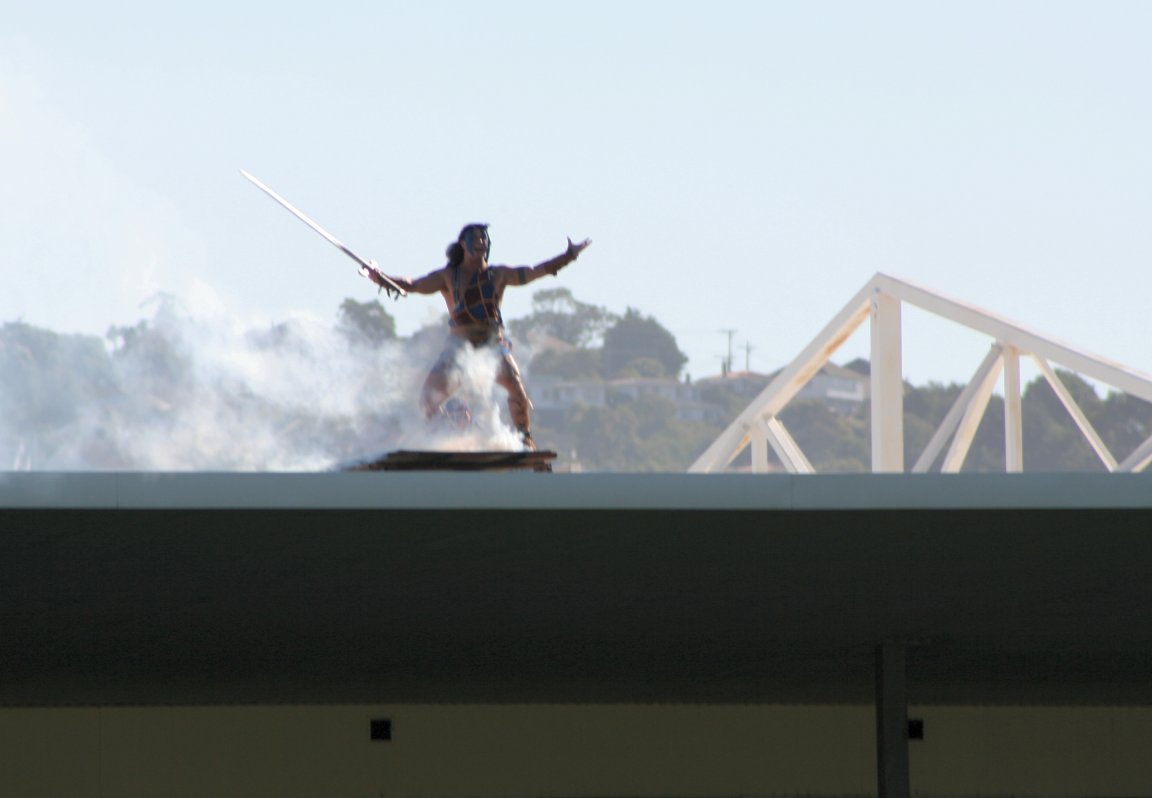 The Highlander mascot for the Highlanders rugby union team.